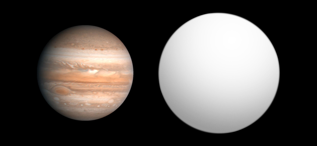 Comparison of best-fit size of the exoplanet TrES-2 b with the Solar System planet Jupiter, as reported in the Extrasolar Planets Encyclopaedia[1] as of 2010-10-03. ↑ Extrasolar Planets Encyclopaedia (2010-09-30). Retrieved on 2010-10-03.